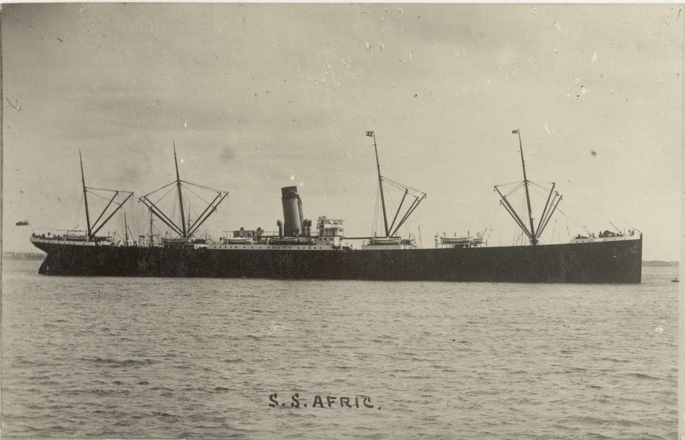 White Star Liner Afric